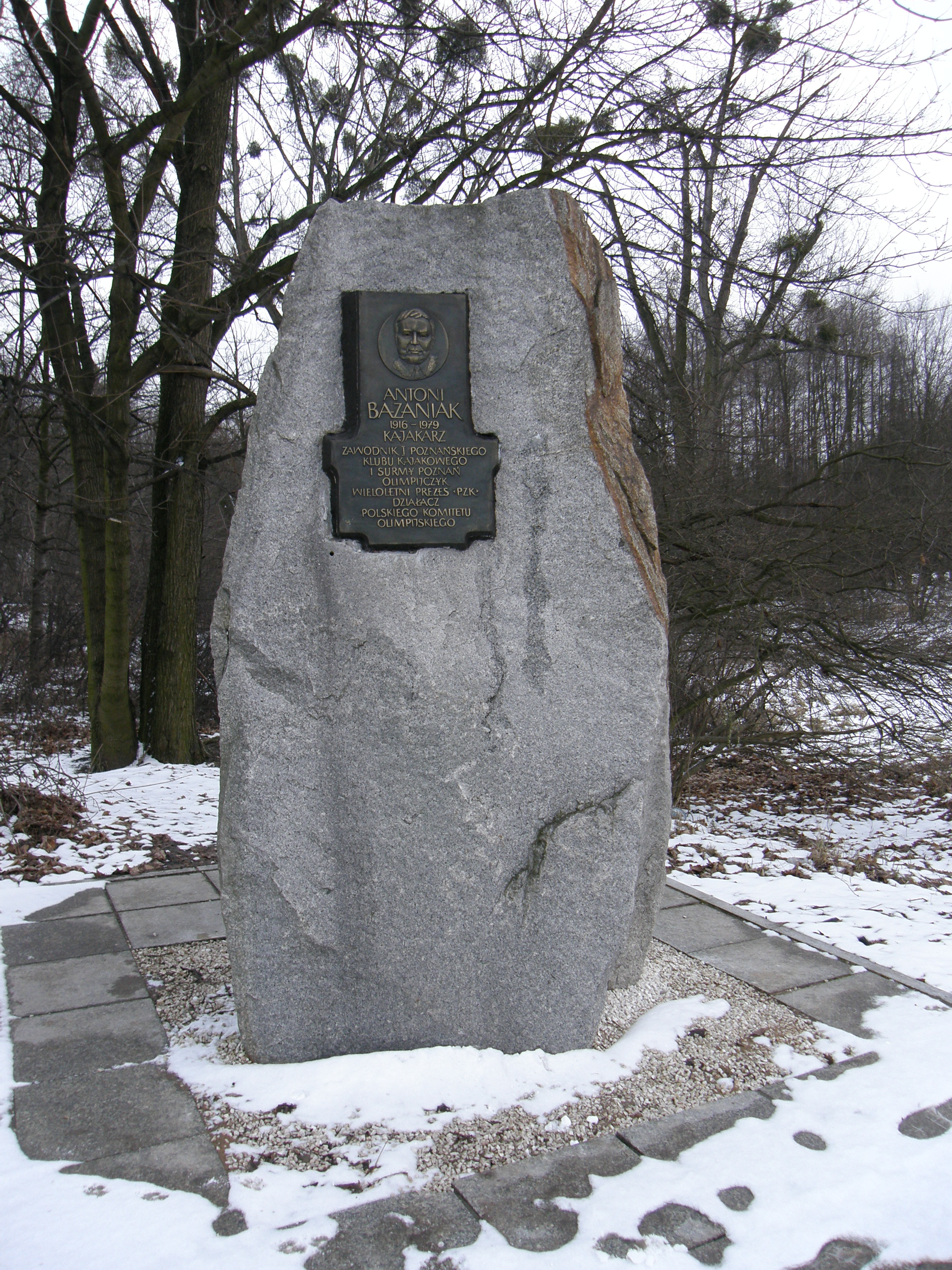 Antoni Bazaniak plaque